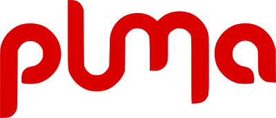 Last logo of the channel Venezuelan music "Puma TV"